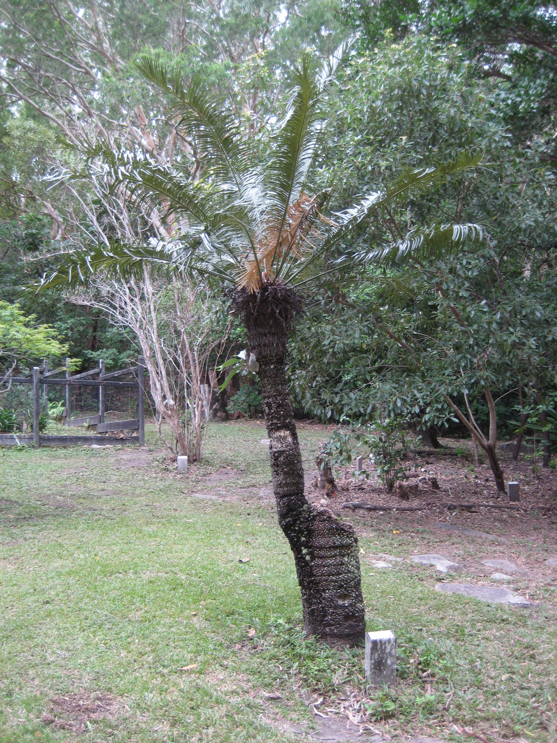 Zamia Nut